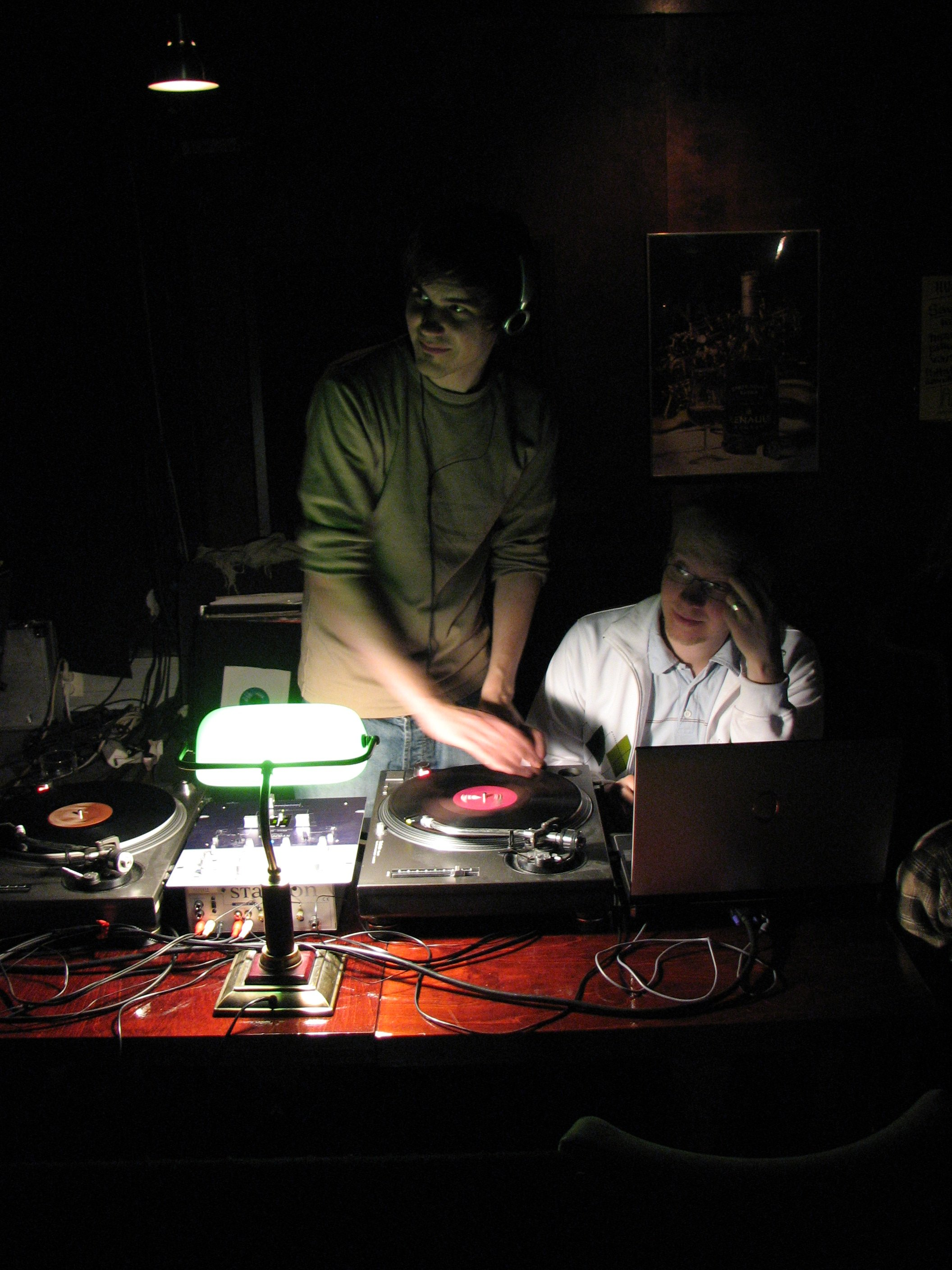 DJ Matti and VJ Vallu performing at Club Somethin' Else on 11 May 2007.